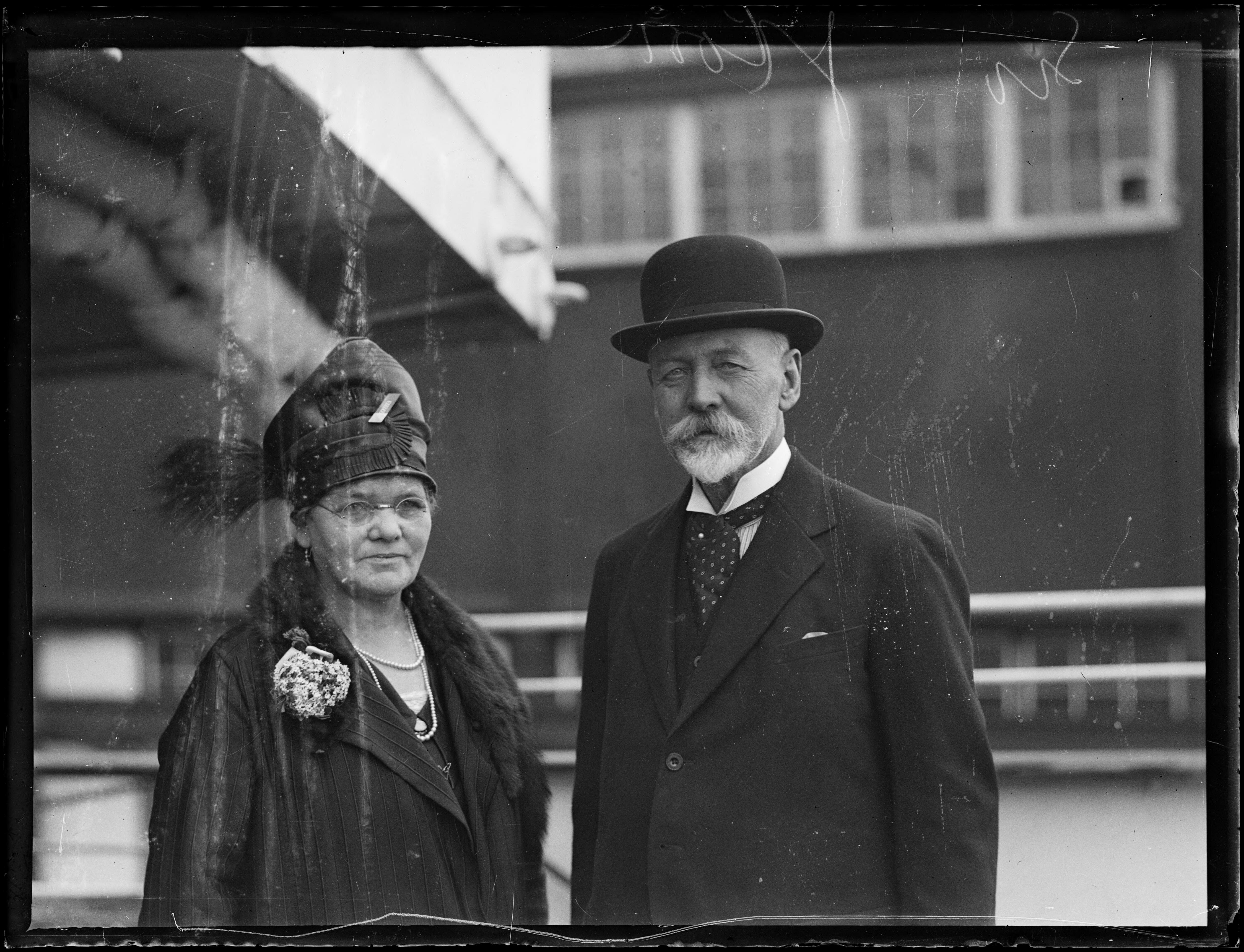 Sir Joseph Cook and Dame Mary Cook on the deck of a ship